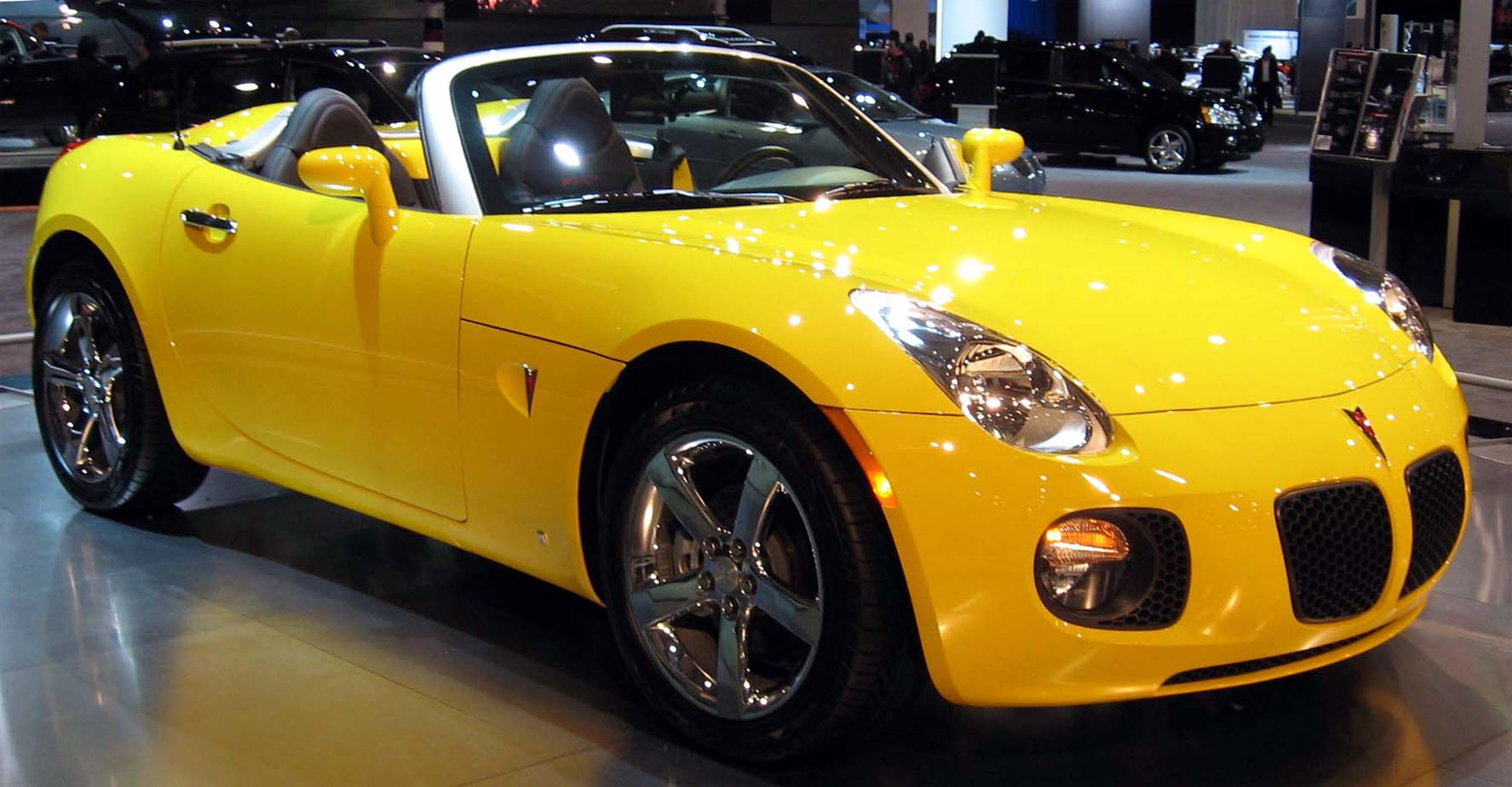 Pontiac Solstice GXP photographed at the Washington Auto Show.